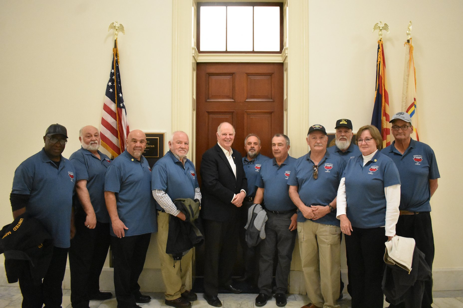 Today, I was pleased to host the United Mine Workers of America at my Washington office to discuss the importance of access to health care and benefits for union members. It was a pleasure to meet with you all. #AZ01